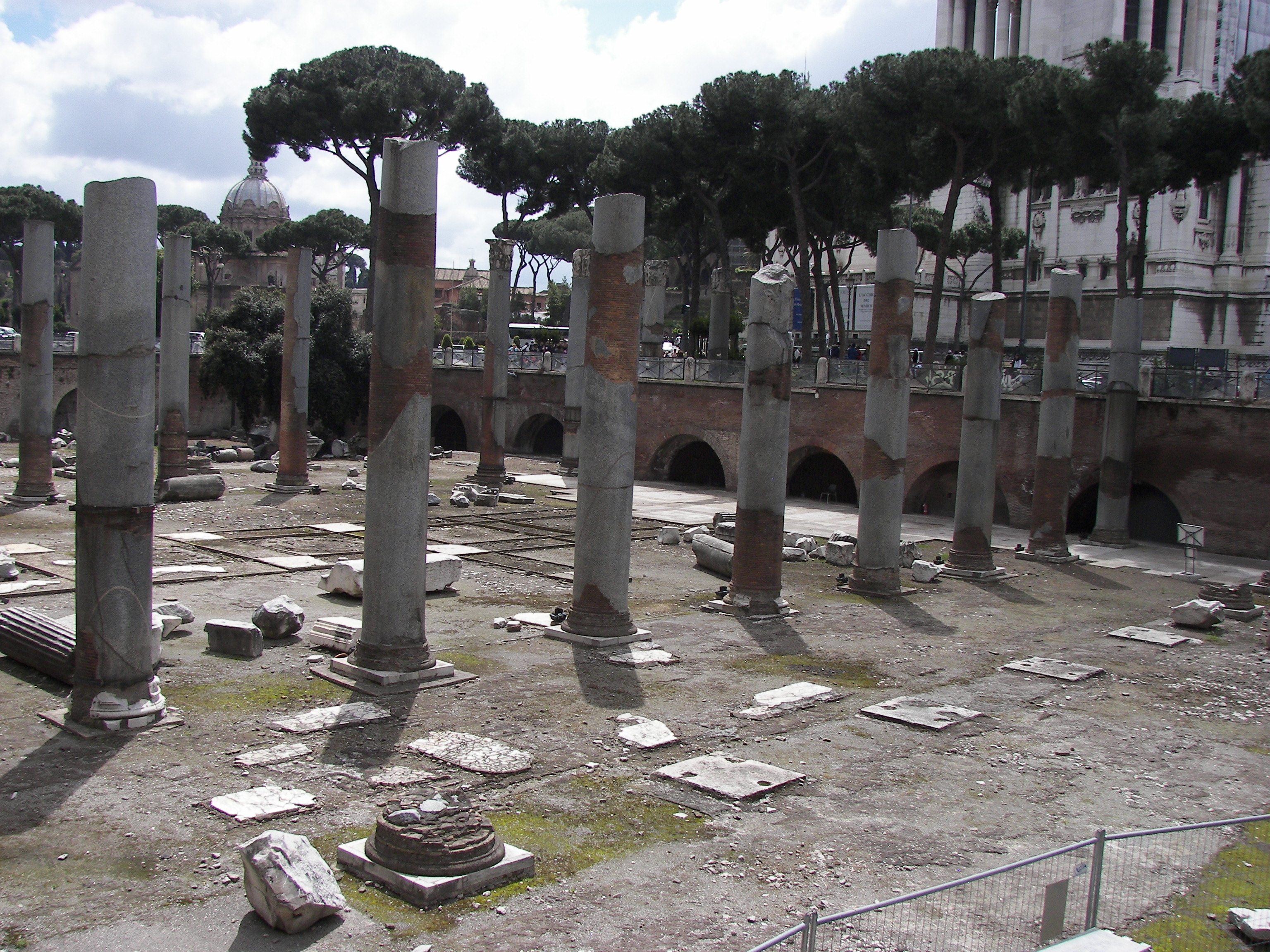 Columns in Trajan's Forum in Rome with Vittoriano in the background.